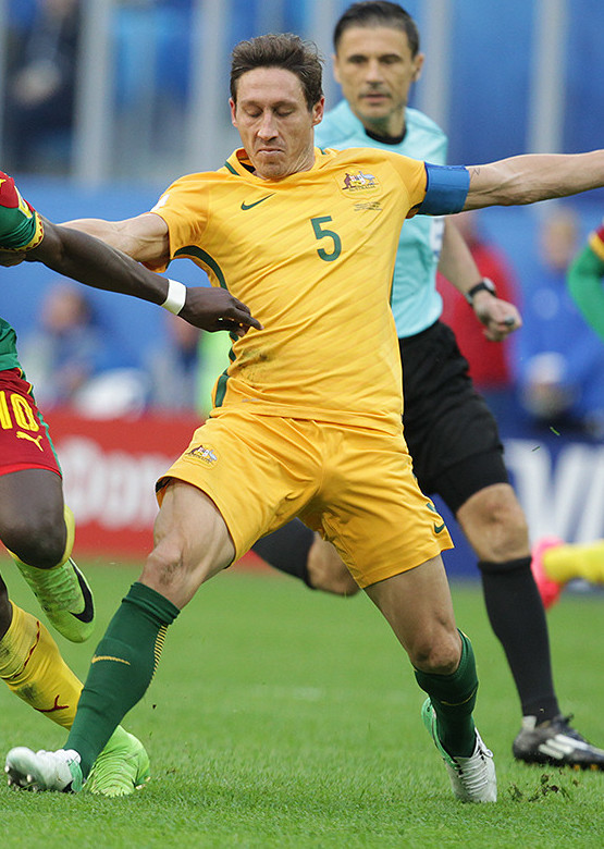 Cameroon vs Australia (1-1). FIFA Confederations Cup 2017